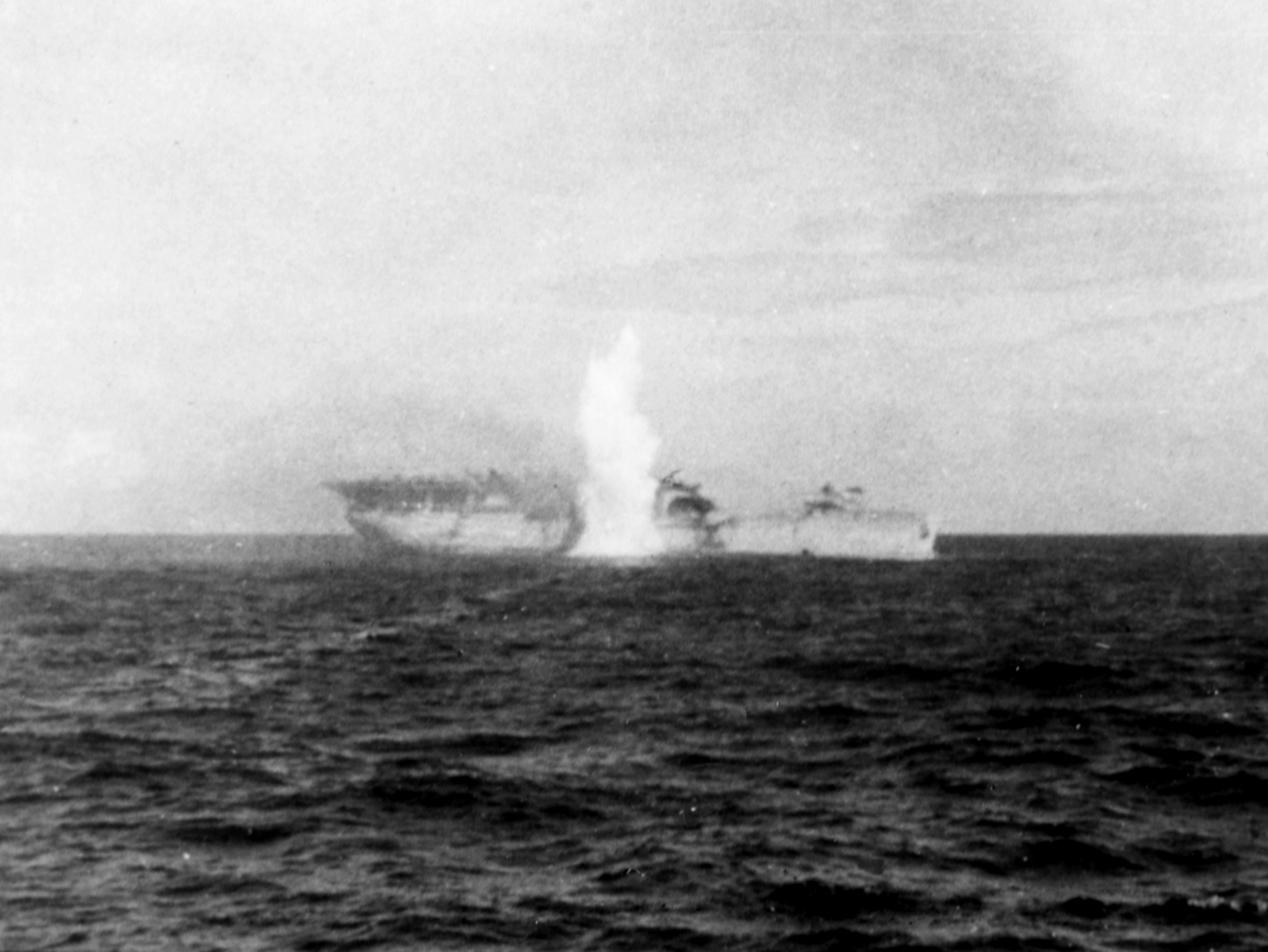 The U.S. Navy seaplane tender USS Langley (AV-3) is torpedoed by USS Whipple (DD-217), after being abandoned, south of Java, 27 February 1942.